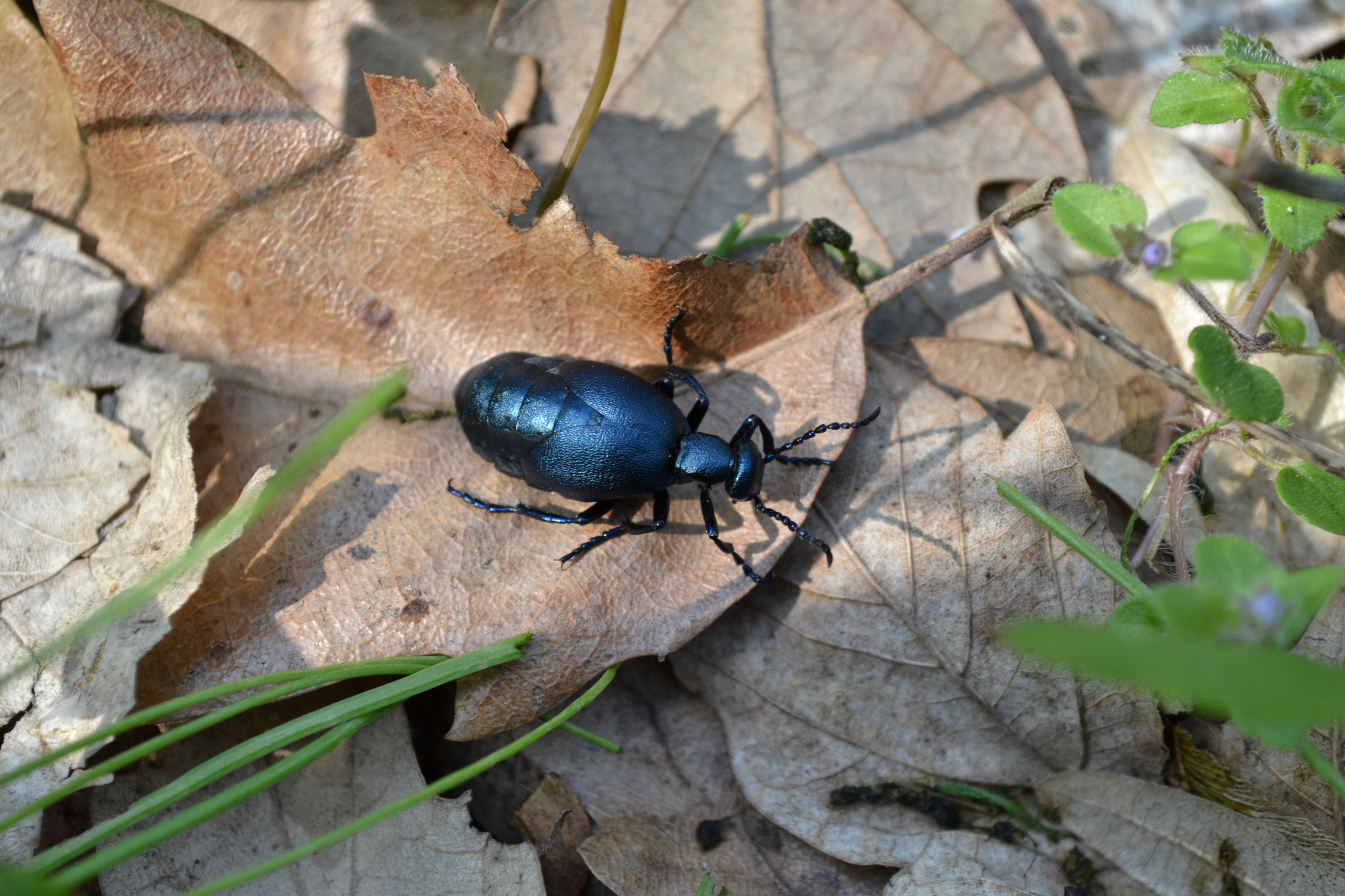 Meloe violaceus in Mučínska vrchovina (Slovakia)